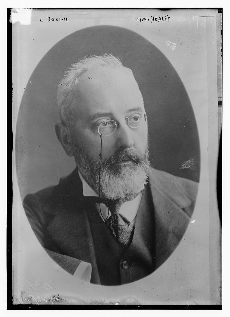 Tim Healey (LOC) Bain News Service,, publisher. Timothy Michael Healy [between ca. 1910 and ca. 1915] 1 negative : glass ; 5 x 7 in. or smaller. Notes: Title from unverified data provided by the Bain News Service on the negatives or caption cards. Forms part of: George Grantham Bain Collection (Library of Congress). Format: Glass negatives. Repository: Library of Congress, Prints and Photographs Division, Washington, D.C. 20540 USA, General information about the Bain Collection is available at Persistent URL: Call Number: LC-B2- 3031-11 Comments and faves